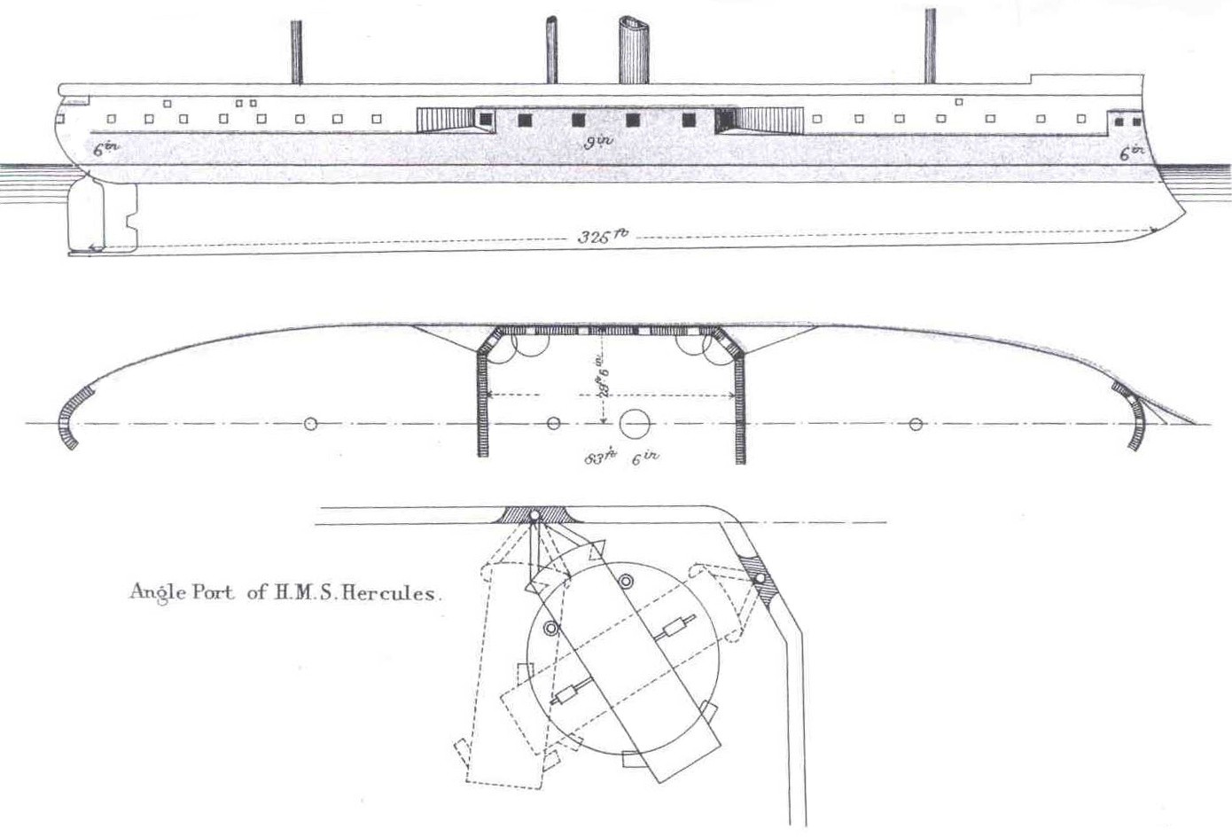 Diagrams depicting right elevation and plan views of British central-battery ironclad battleship HMS Hercules.